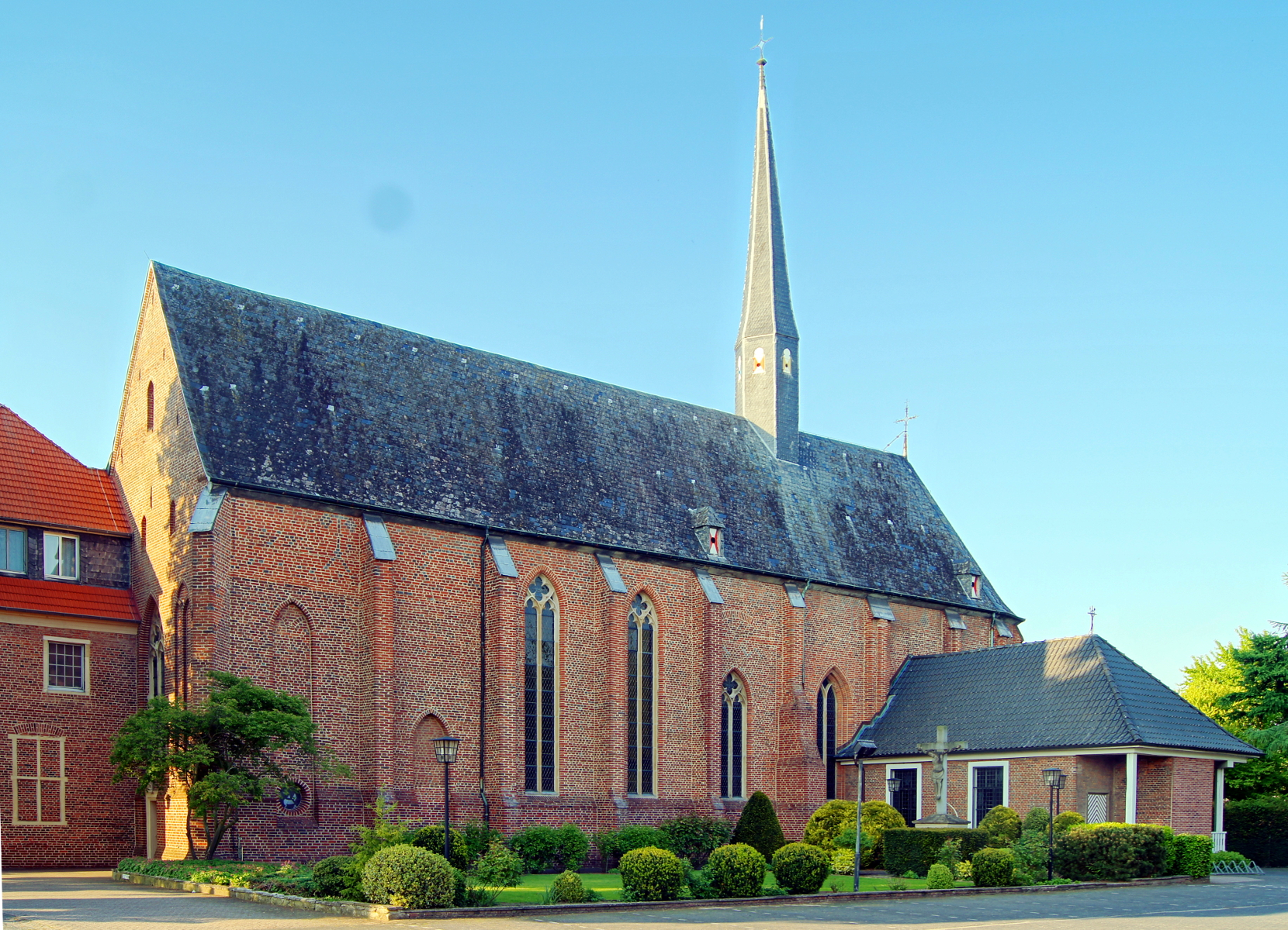 The church St. Mary in Burlo. This is a photograph of an architectural monument. I/26